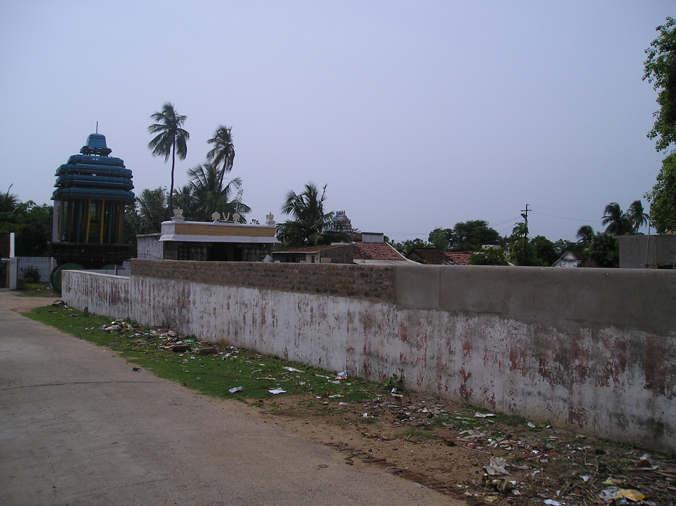 Temple chariot of Tirunindravur